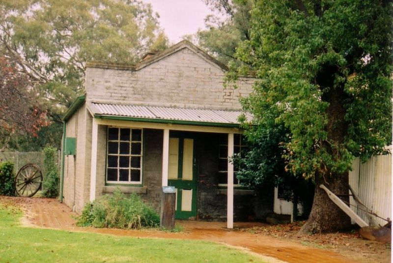 Image of the old Jerilderie, NSW, Australia Post office Ned Kelly Robbed.